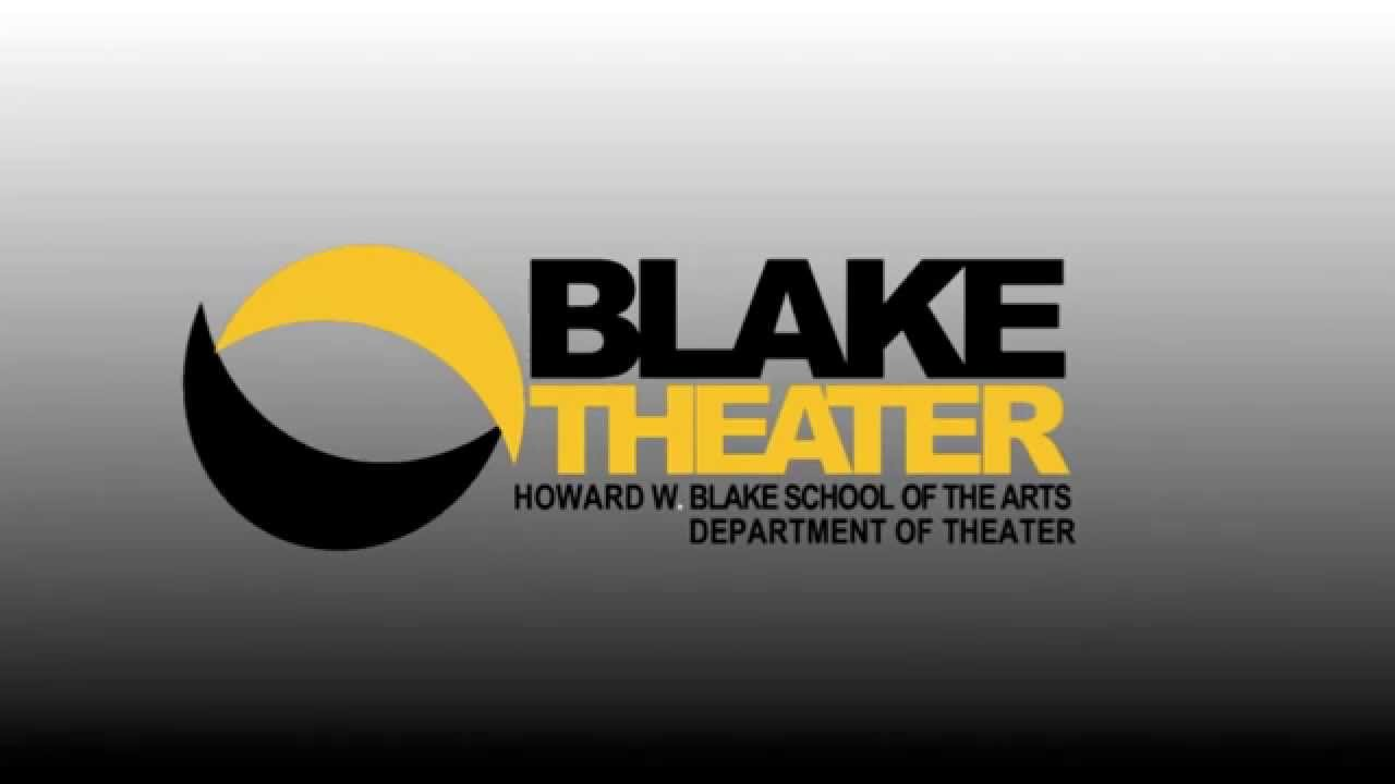 Logo of the Howard W Blake theater Department Visual Desigen by Sean Ryan Paris